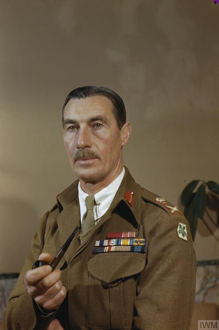 The Second World War- Personalities Lieutenant General R M Scobie CB, CBE, MC, General Officer Commanding Allied Land Forces Greece, holding a pipe at his headquarters in Athens.